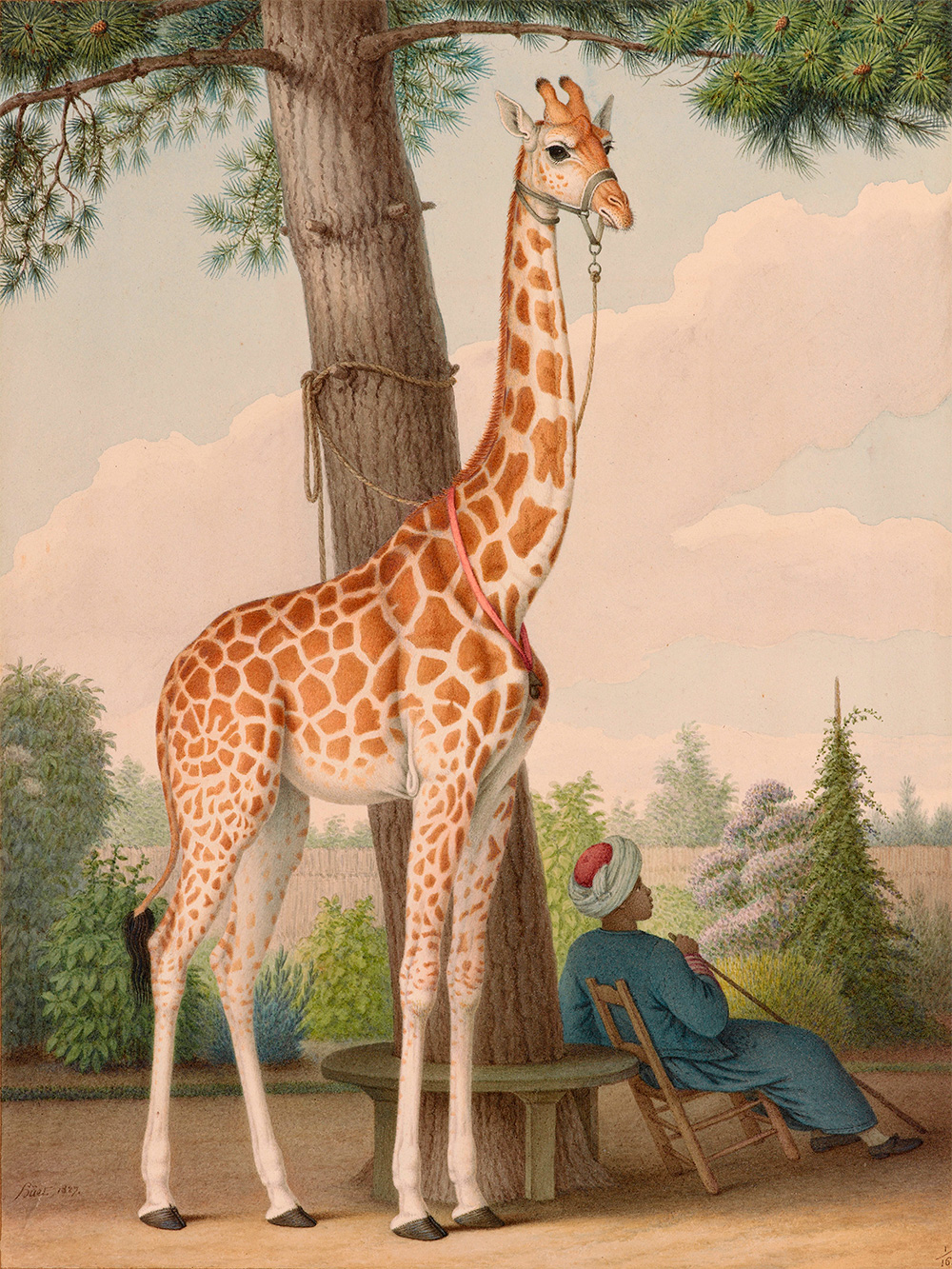 "Study of the Giraffe Given to Charles X by the Viceroy of Egypt," by Nicolas Huet the Younger (1827) A watercolor depiction of the first giraffe ever seen in France, alongside the groom who would look after it for the next eighteen years.